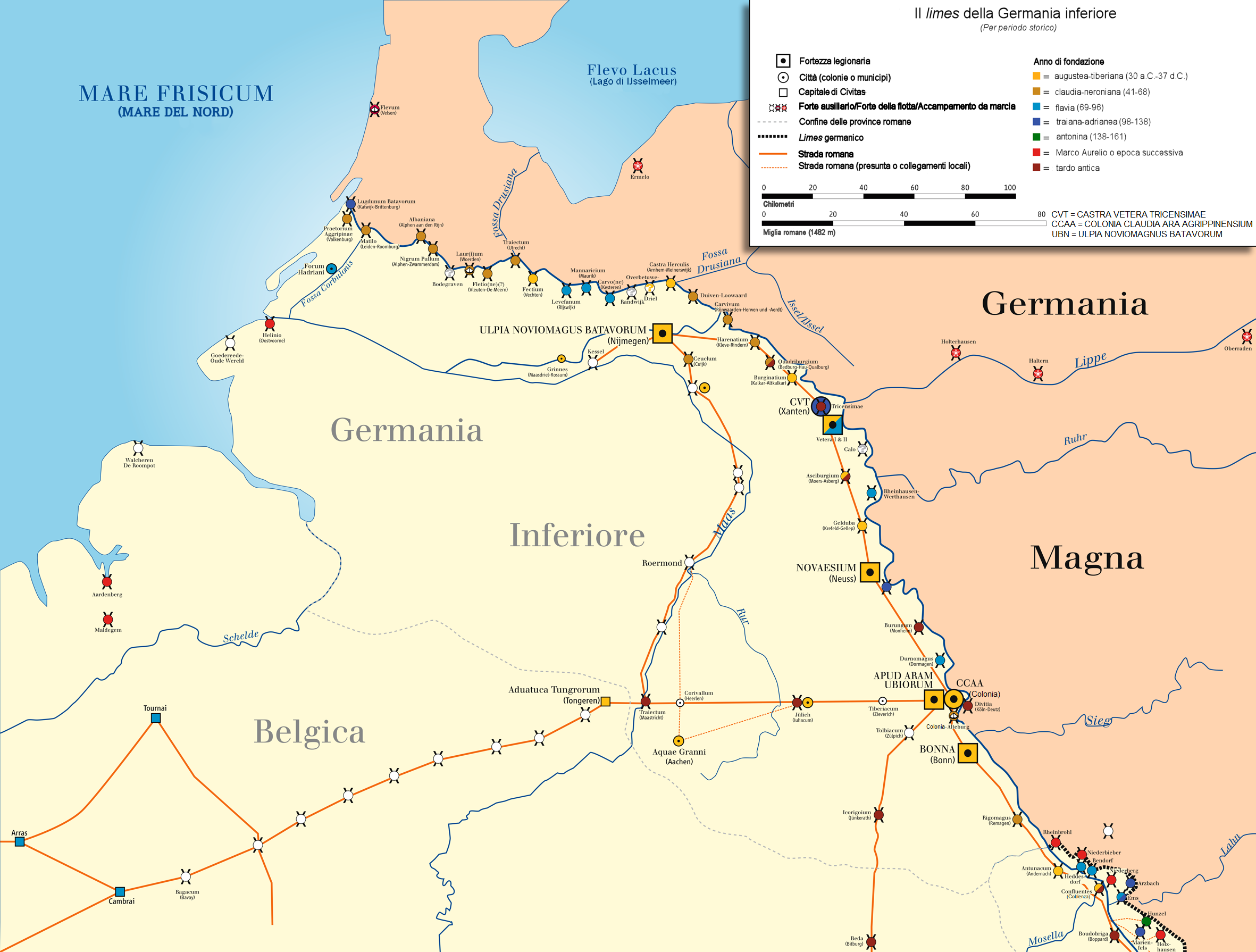 Italian version of File:Limes1.png